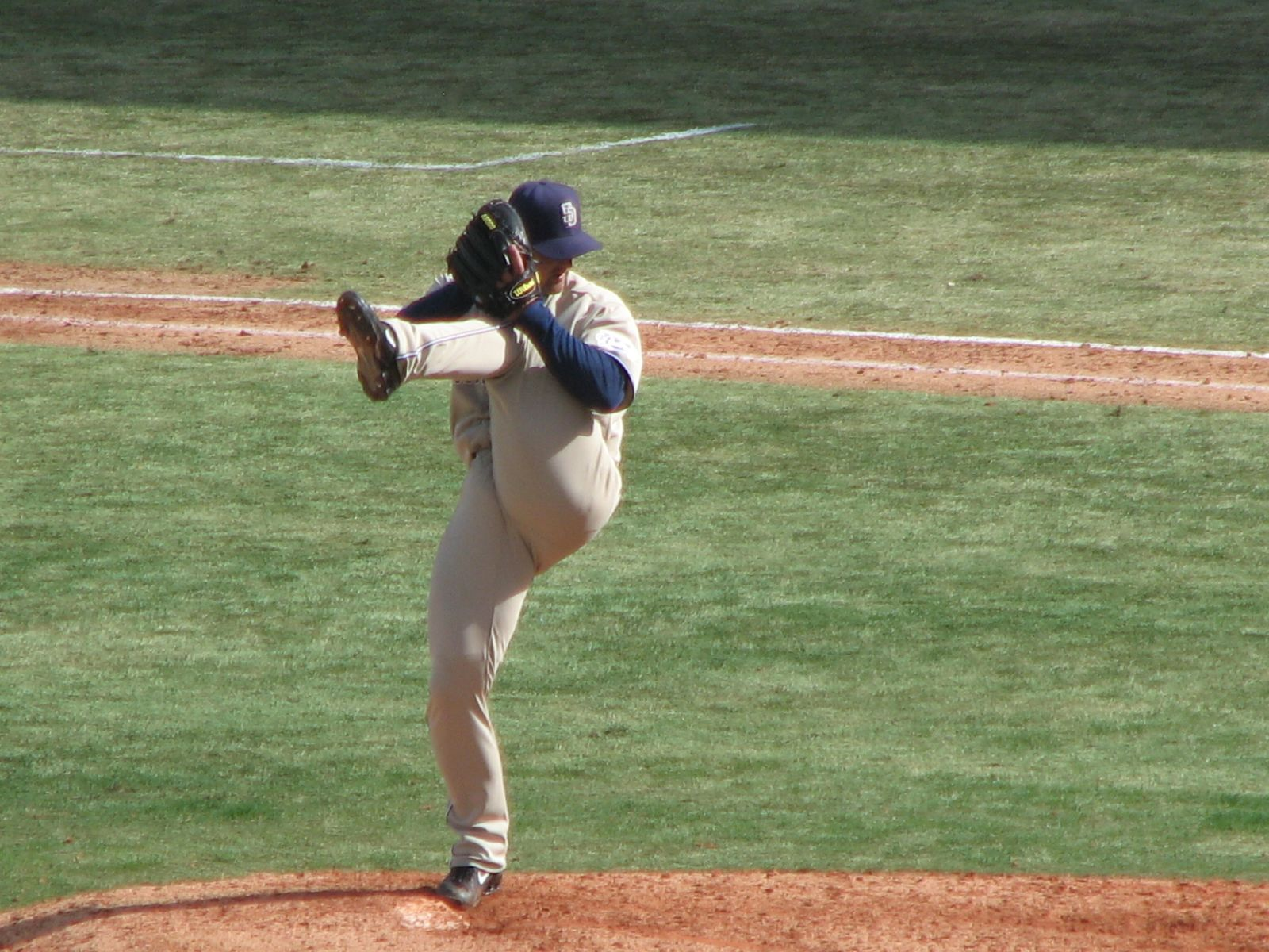 Trevor Hoffman pitches during the game of the MLB China Series on March 15, 2008.